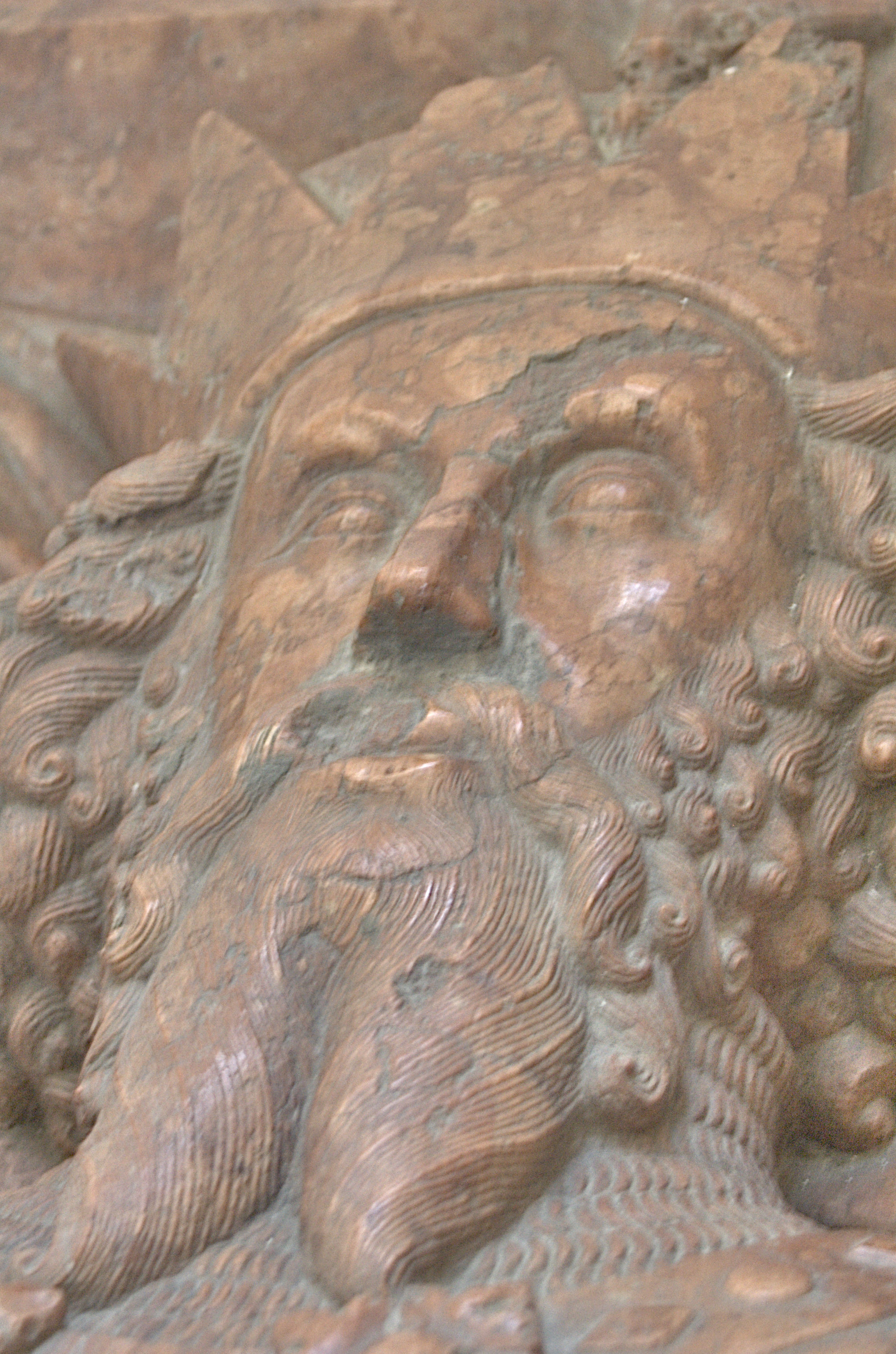 tomb slab of Ernest, Duke of Austria